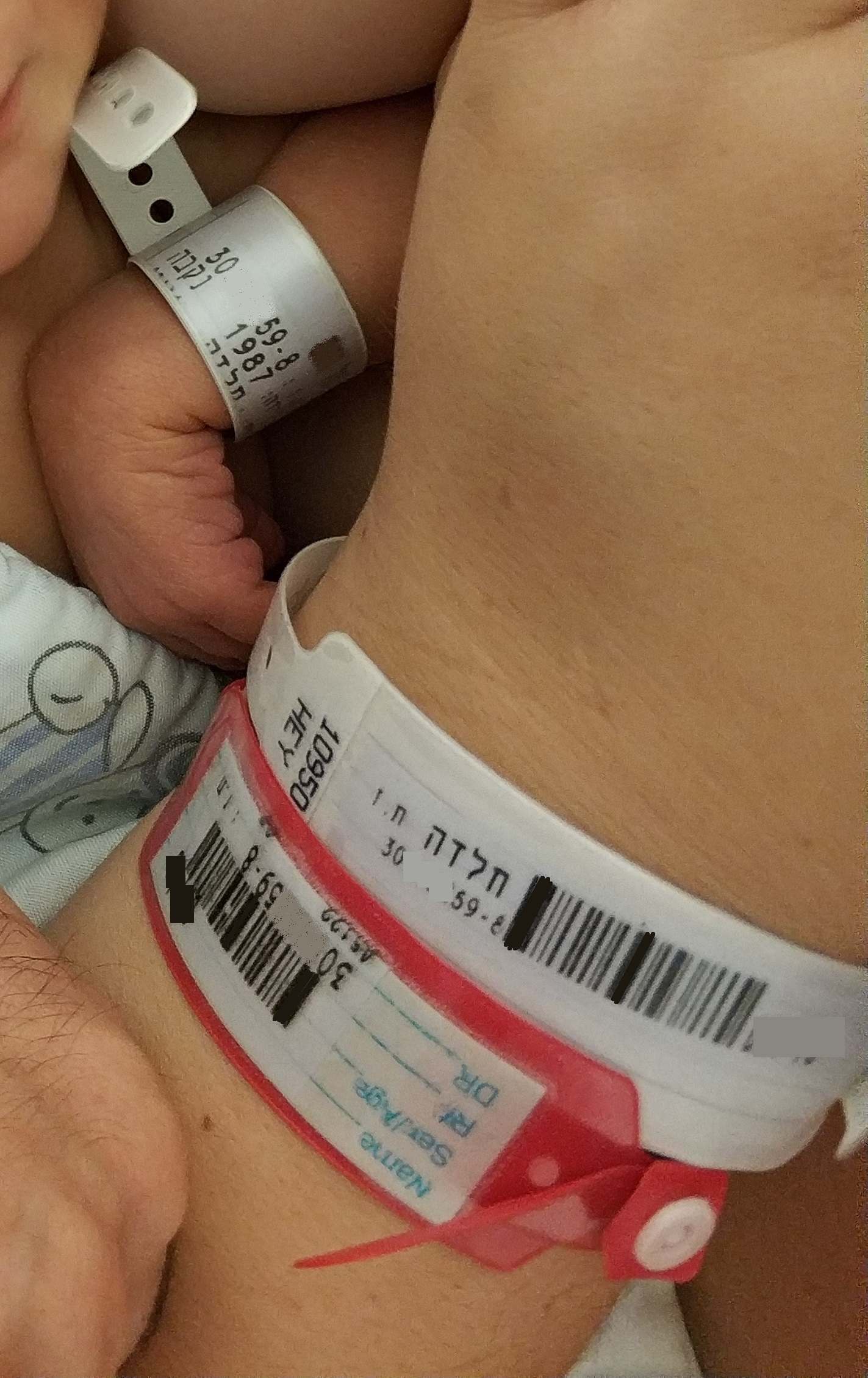 birth Bracelet